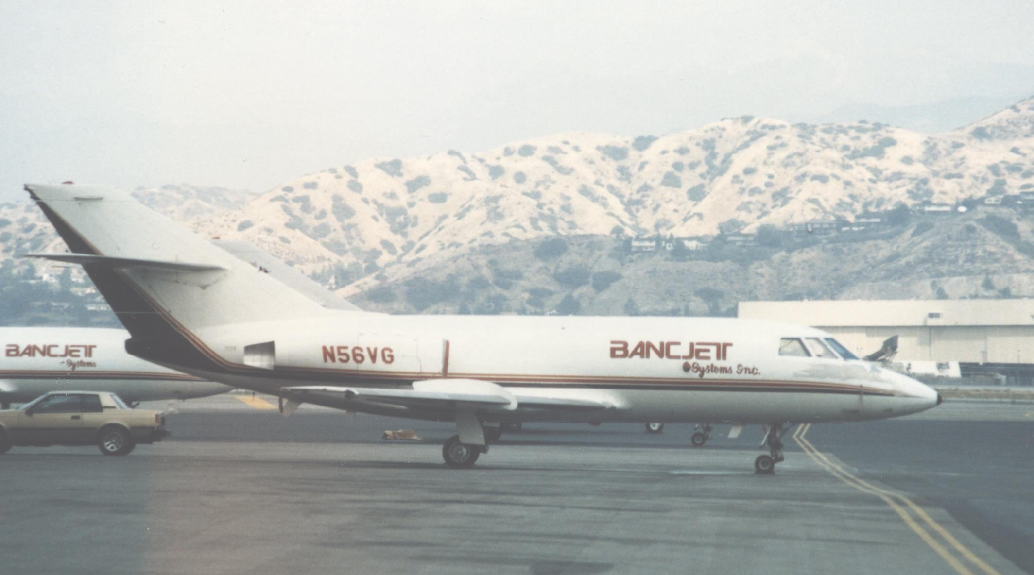 Dassault Falcon 20DC freighter of Bancjet Systems at Burbank airport, California